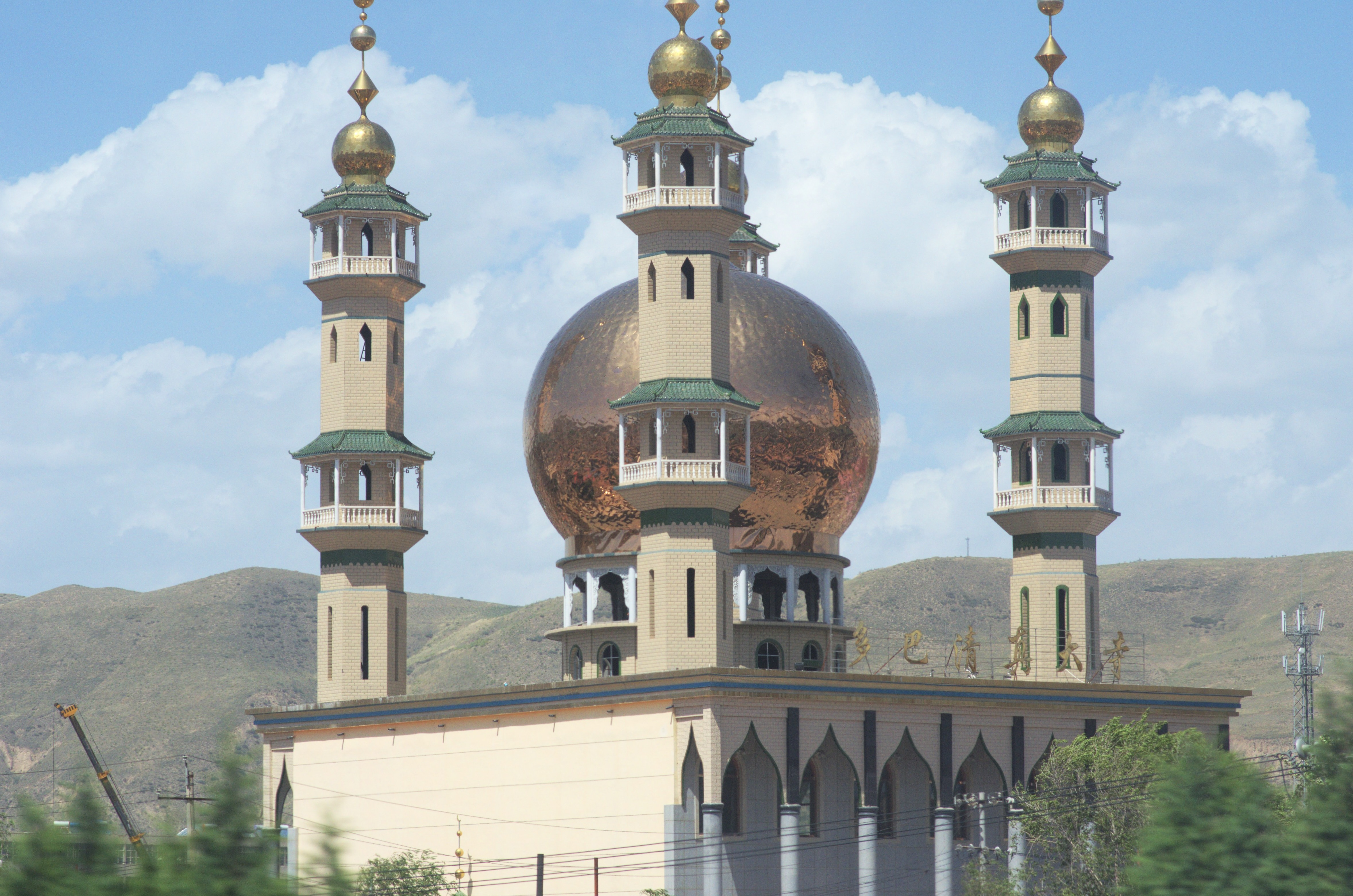 Duoba gread mosque (多巴清真大寺), municipalité de Xining, province de Qinghai, Chine.